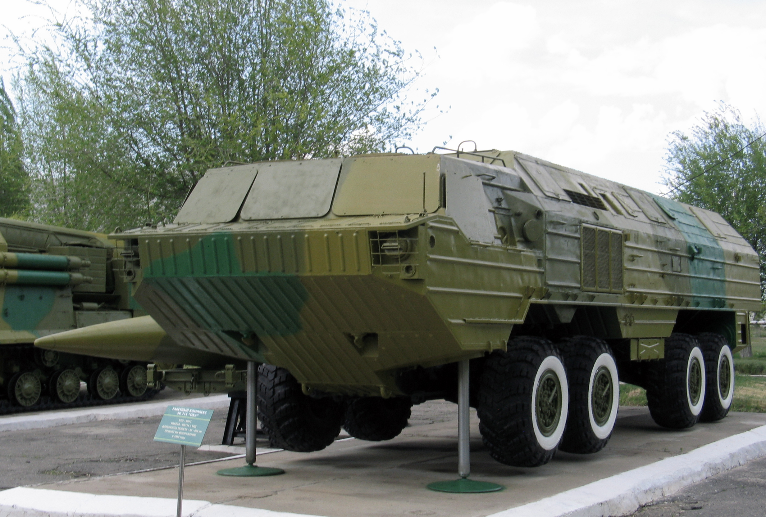 9P71 Transporter-Erector-Launcher of 9K714 missile complex «Oka». Kapustin Yar museum in Znamensk, Russia.